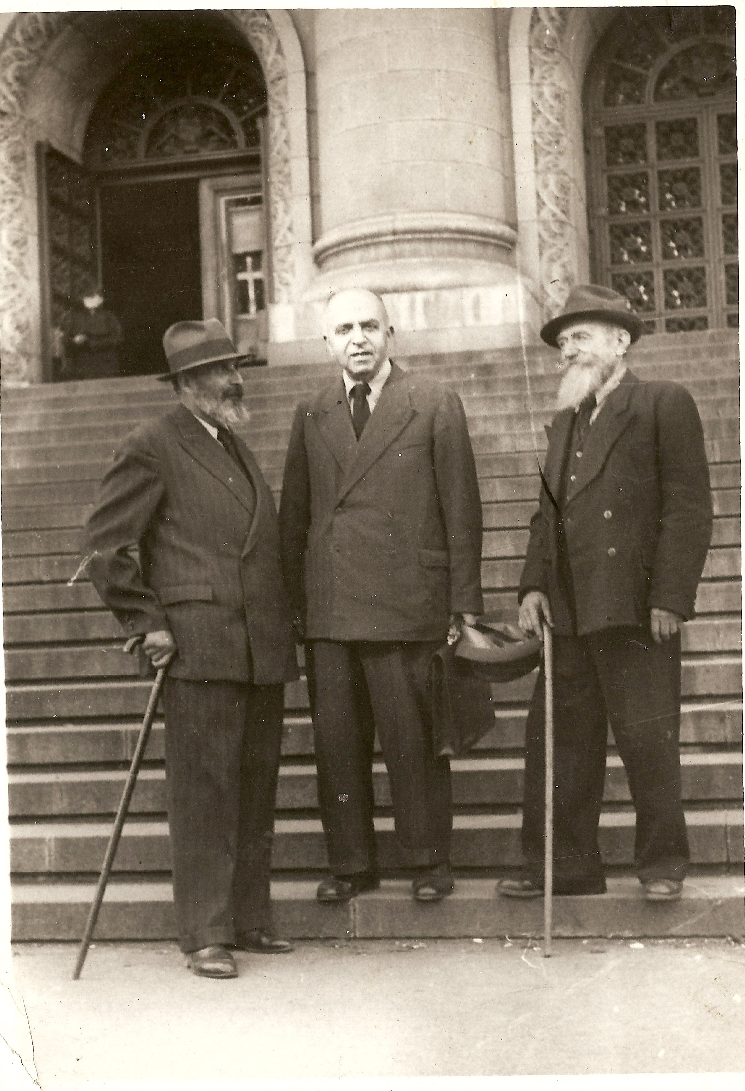 Georgi Zankov Naum Terziyanov and Ivan Katzarov front of the courthouse in Sofia, 1936.